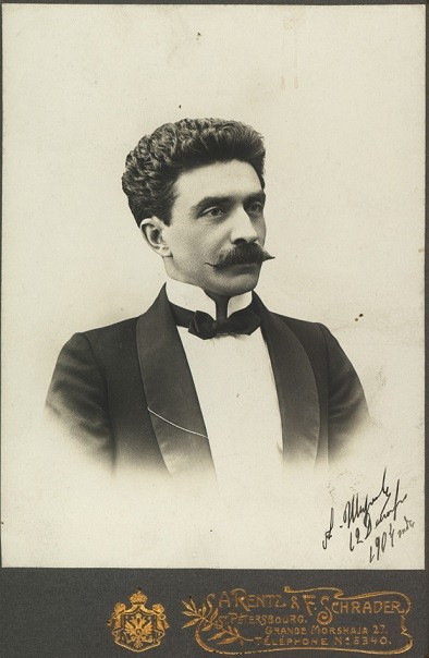 Photograph of the dancer of Mariinsky theatre of Shiryaev A.V.